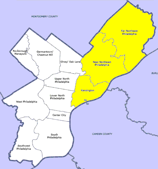 Map of Philadelphia County highlighting Northeast Philadelphia